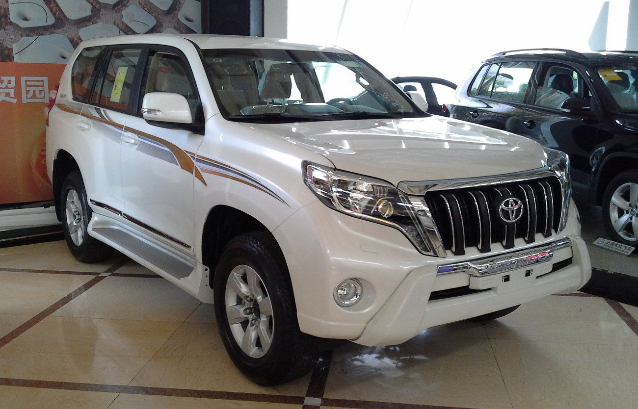 Toyota Land Cruiser Prado J150 facelift photographed in Chengdu, Sichuan province, China.